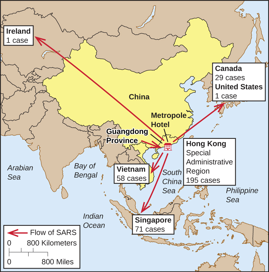 Name: Microbiology ID: Language: English Summary: Subjects: Science and Technology Keywords: Print Style: License: Creative Commons Attribution License (by 4.0) Authors: OpenStax Microbiology Copyright Holders: OpenStax Microbiology Publishers: OpenStax Microbiology Latest Version: 4.4 First Publication Date: Oct 17, 2016 Latest Revision: Nov 11, 2016 Last Edited By: OpenStax Microbiology